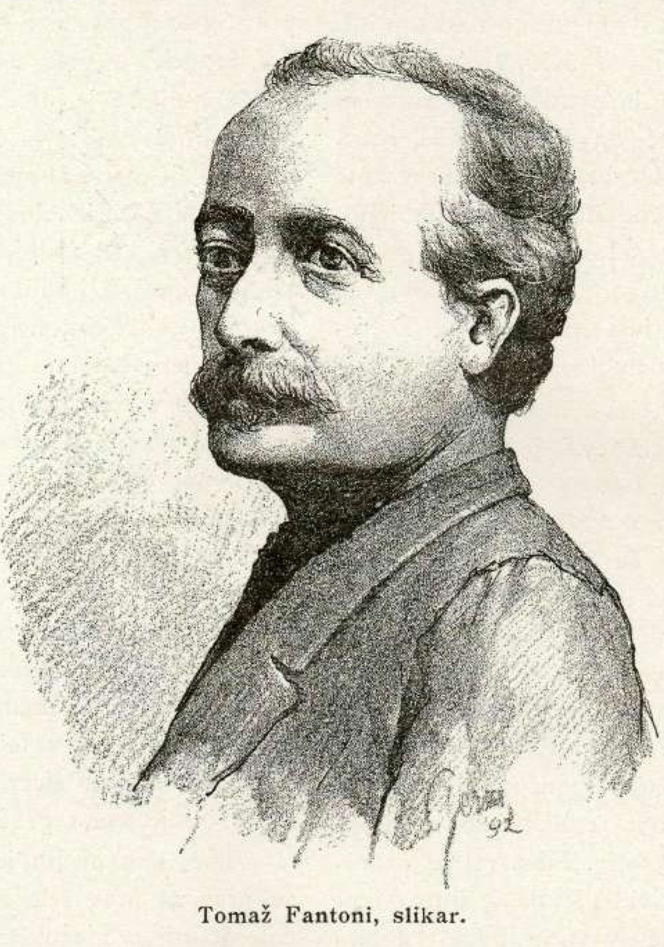 Ettore Tommaso Fantoni, italian (friulan) painter lived and worked at Slovenia